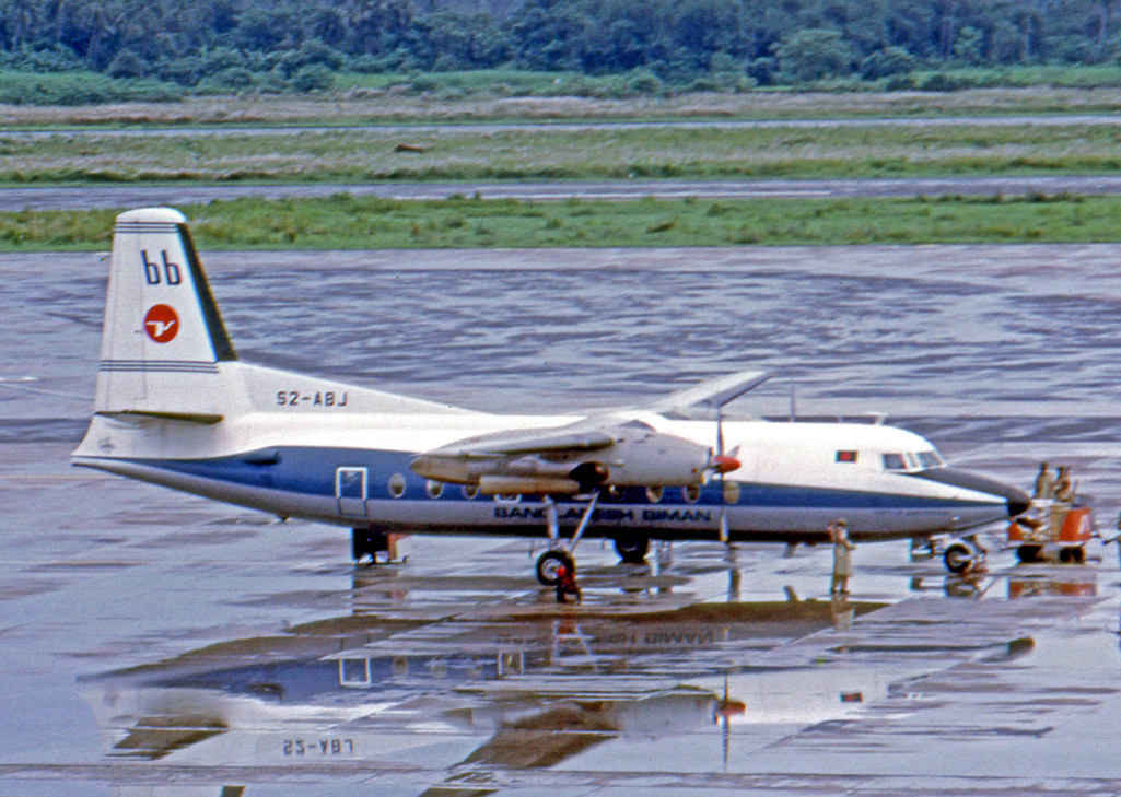 Fokker F27 Series 600 S2-ABJ of Bangladesh Biman at Calcutta airport in 1974